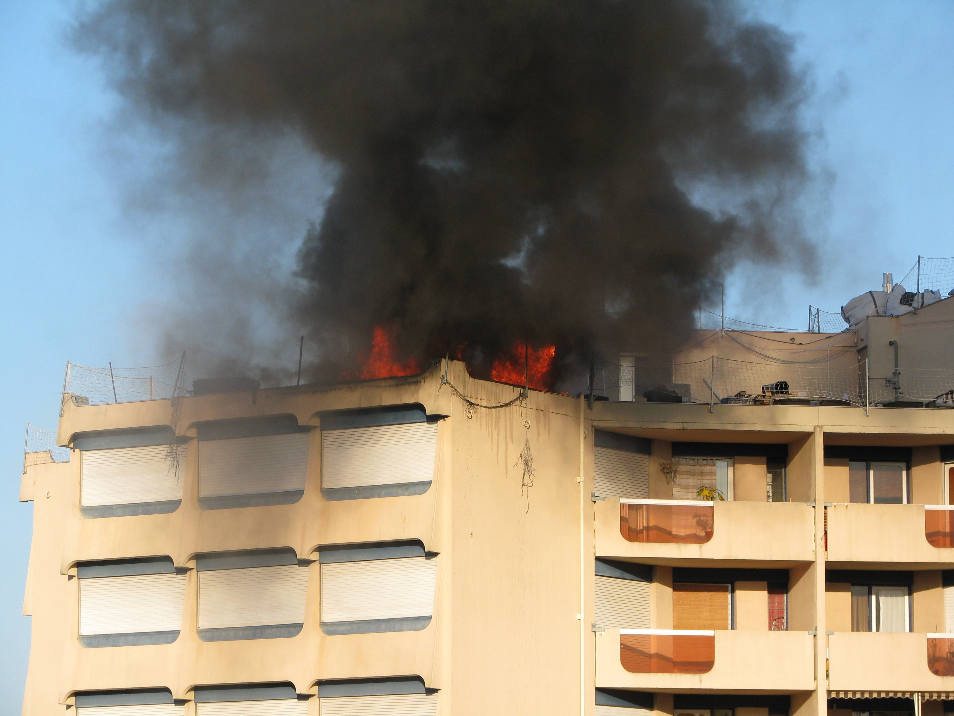 Building fire